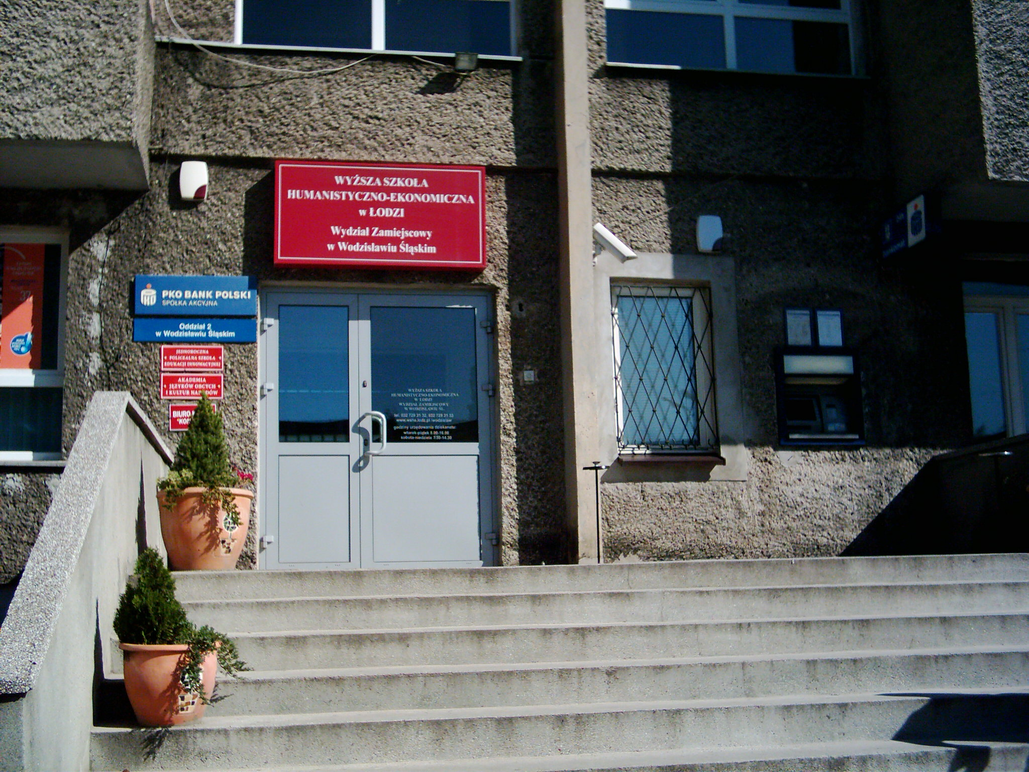 WSHE in Wodzisław